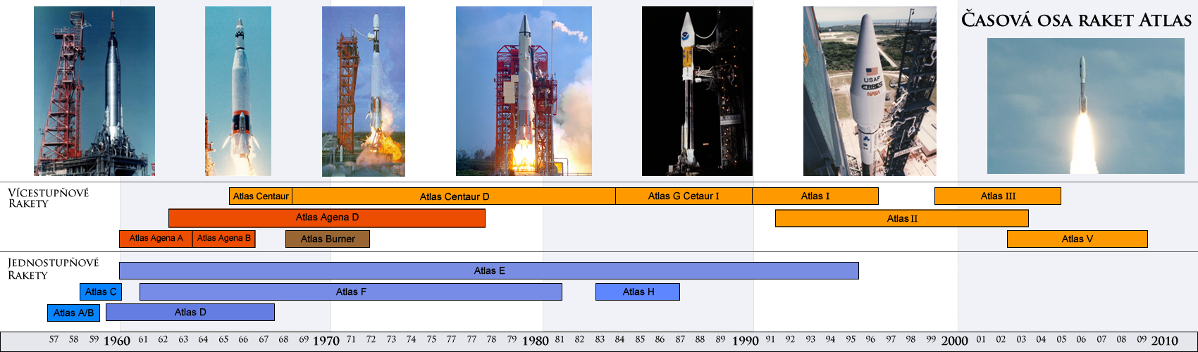 History of Atlas rockets, 1957 - 2009